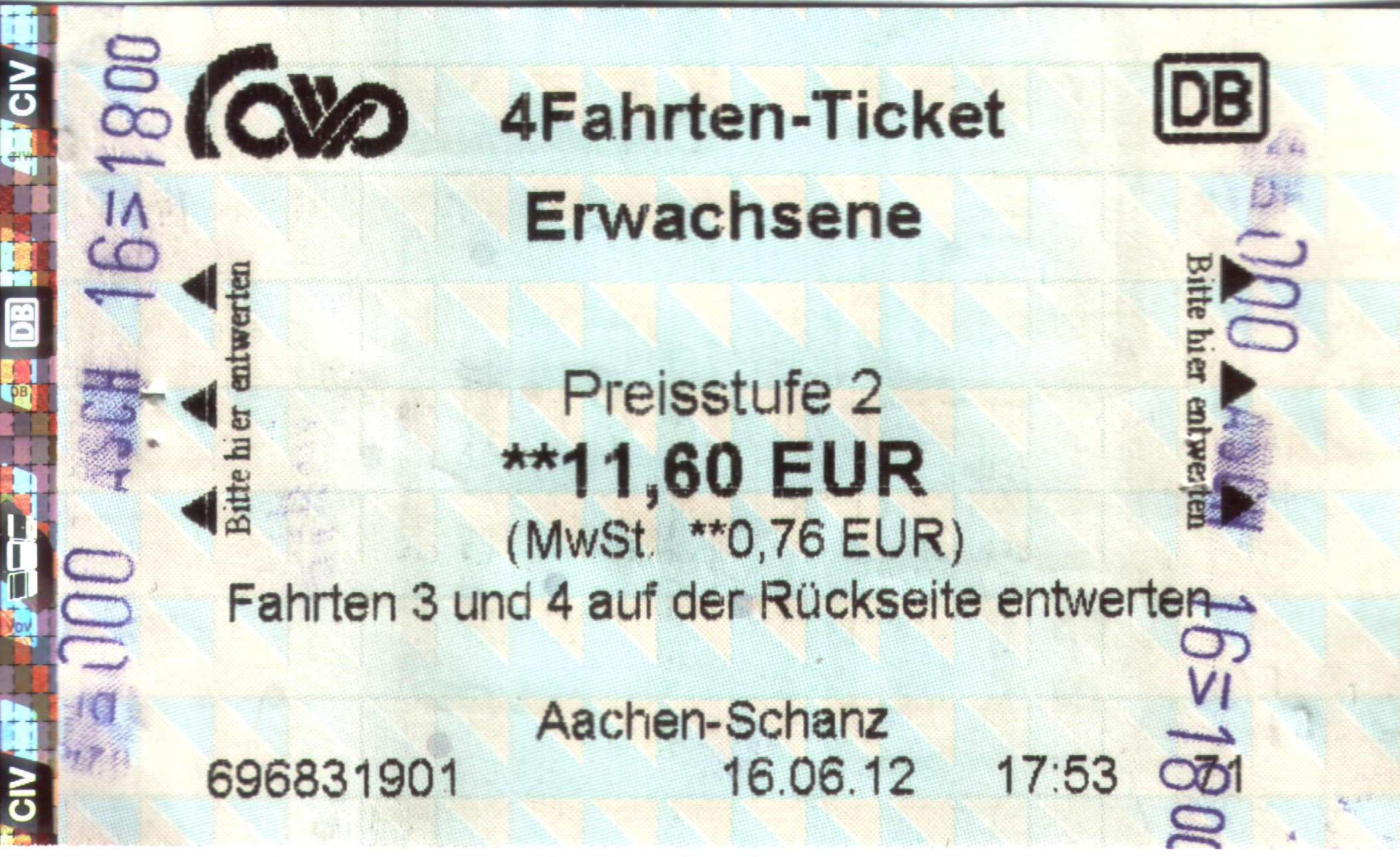 AVV/DB Verbundtarif - 4-Fahrten-Ticket